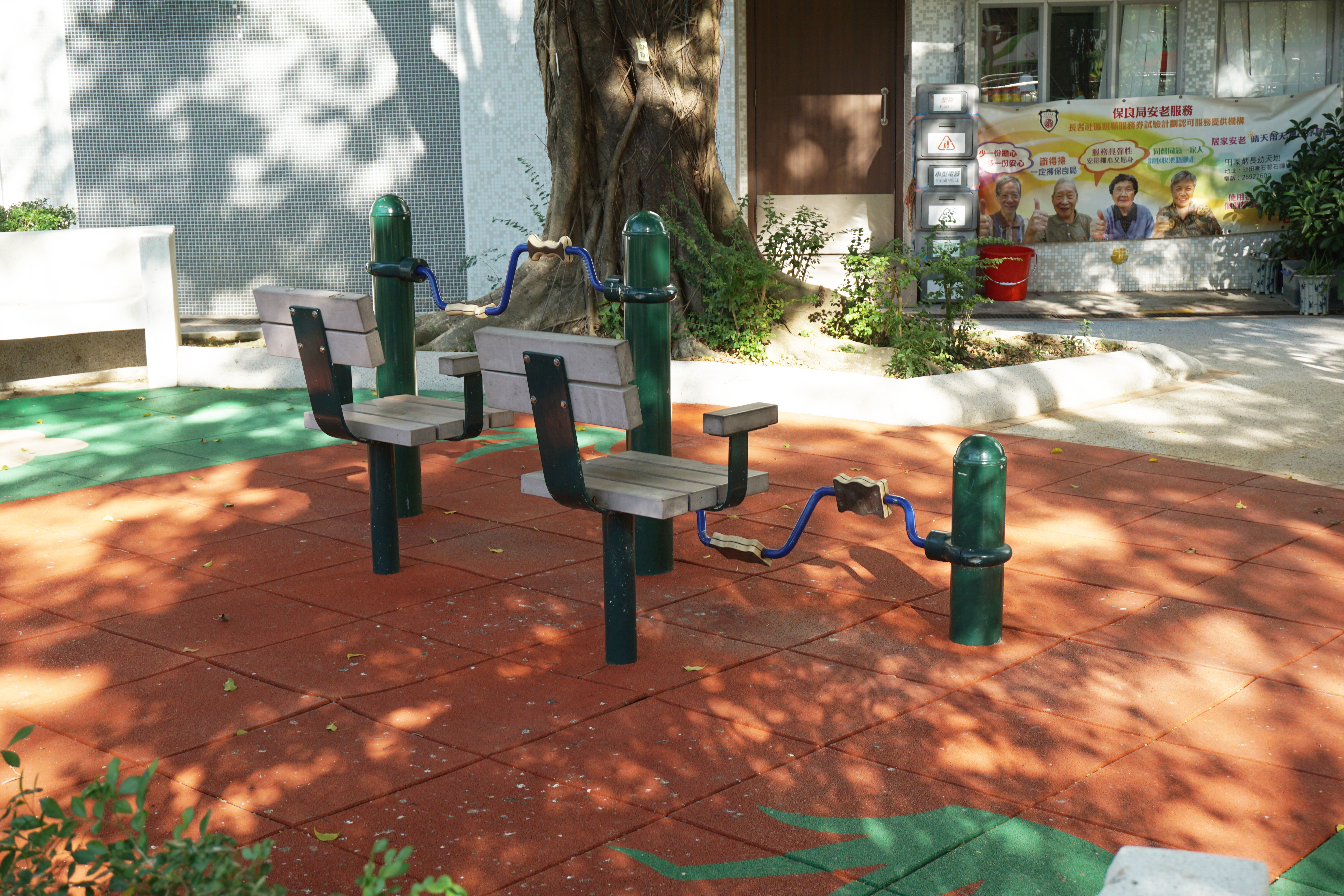 Chun Shek Estate in Sha Tin Tau, Hong Kong.